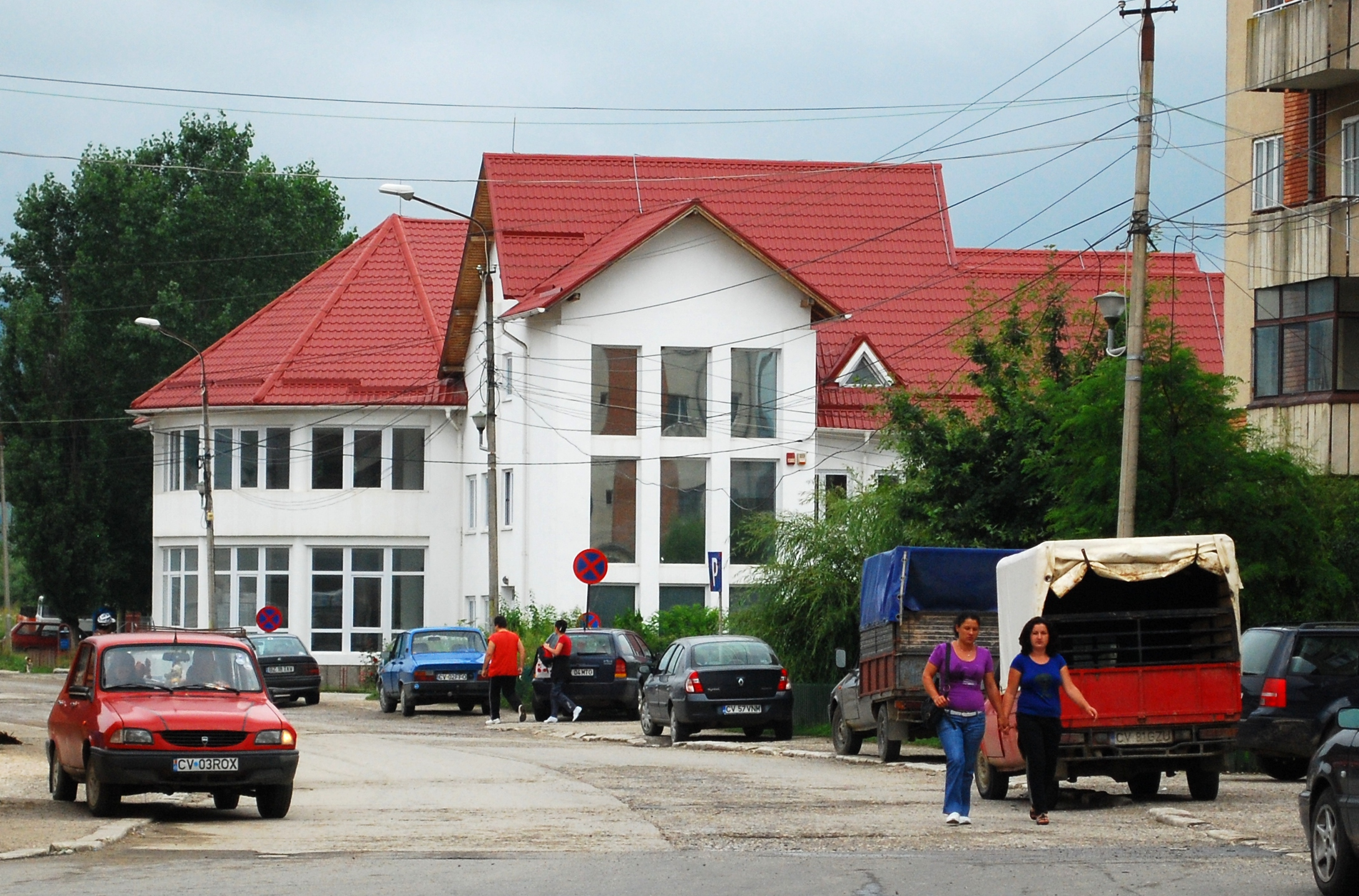 The railway station in Întorsura Buzăului, Covasna County, Romania